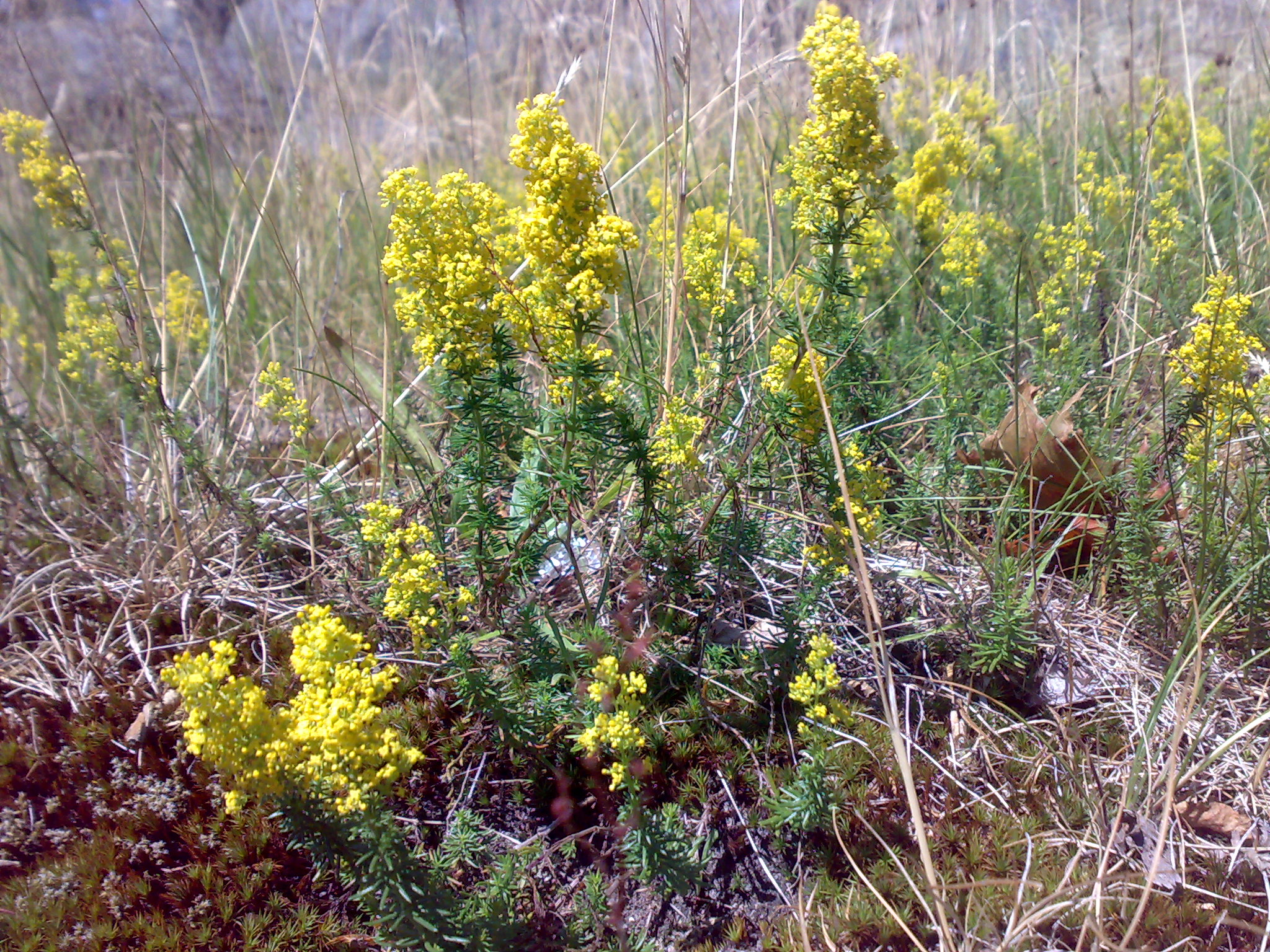 Galium verum Odderøya, Kristiansand Norway